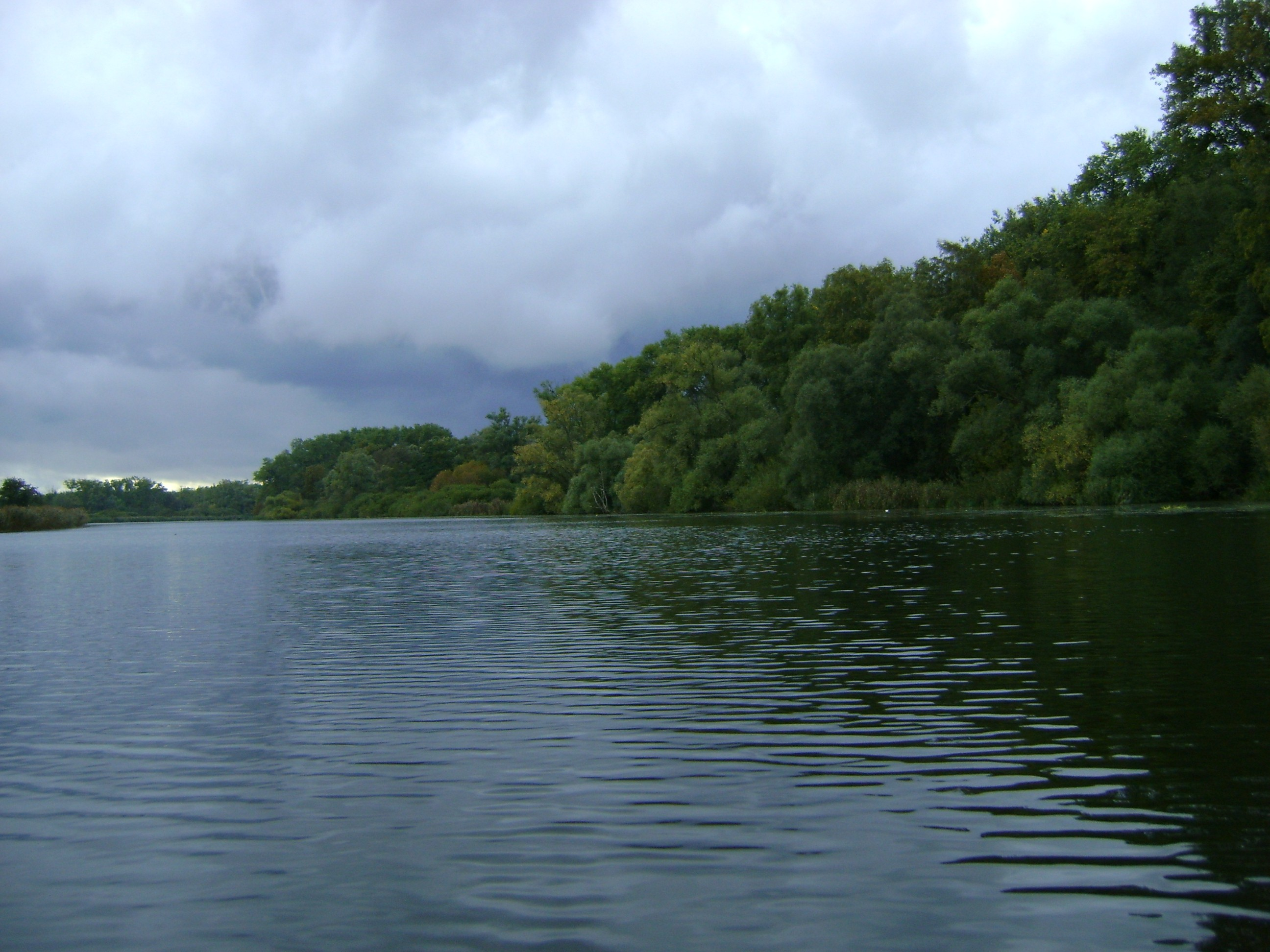 Swieta - one of Odra river arms between Radolin and Dębina islands (right side)